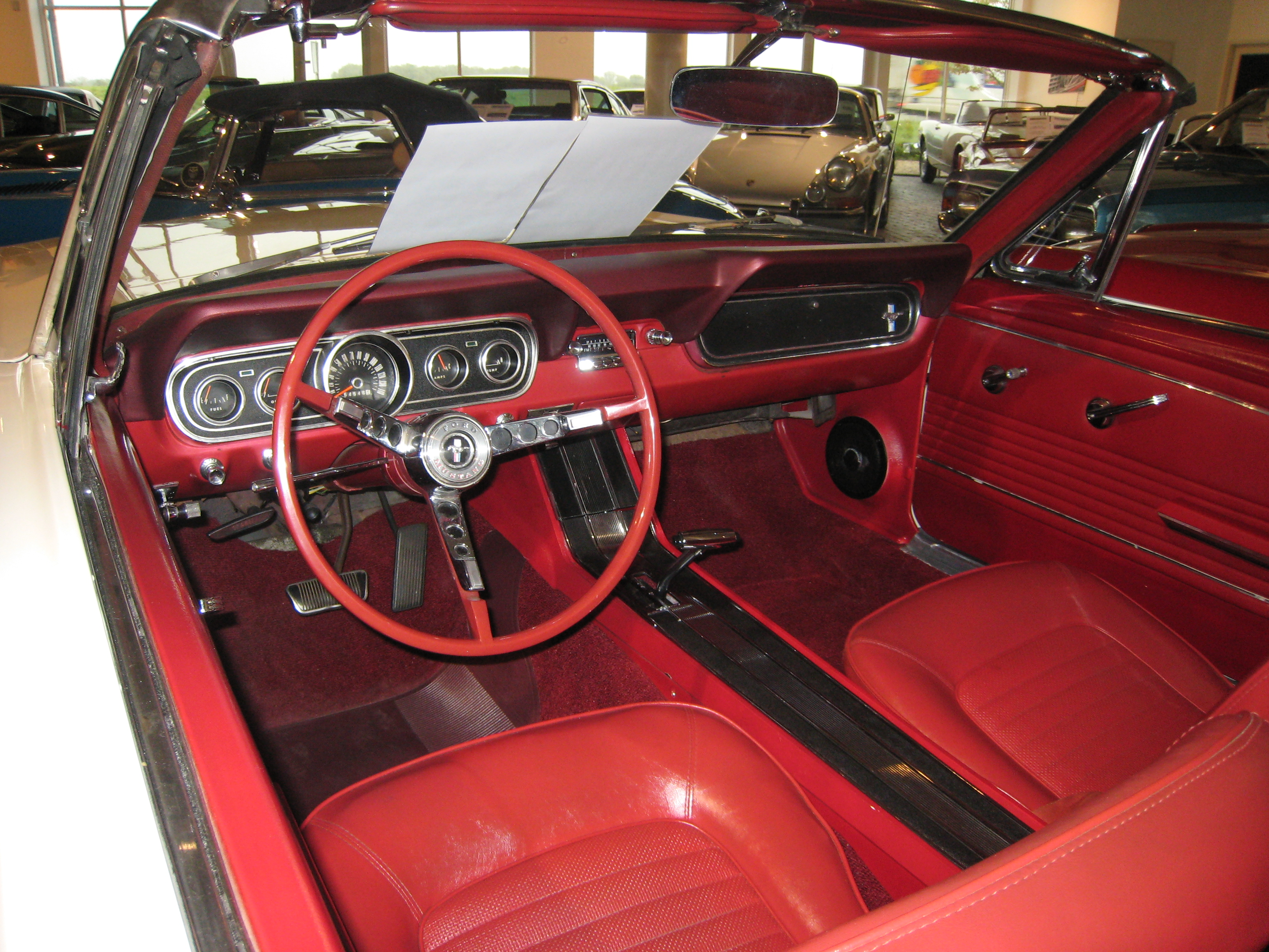 Interior of a 1966 Ford Mustang Convertible at "The Gallery" in Brummen, the Netherlands.